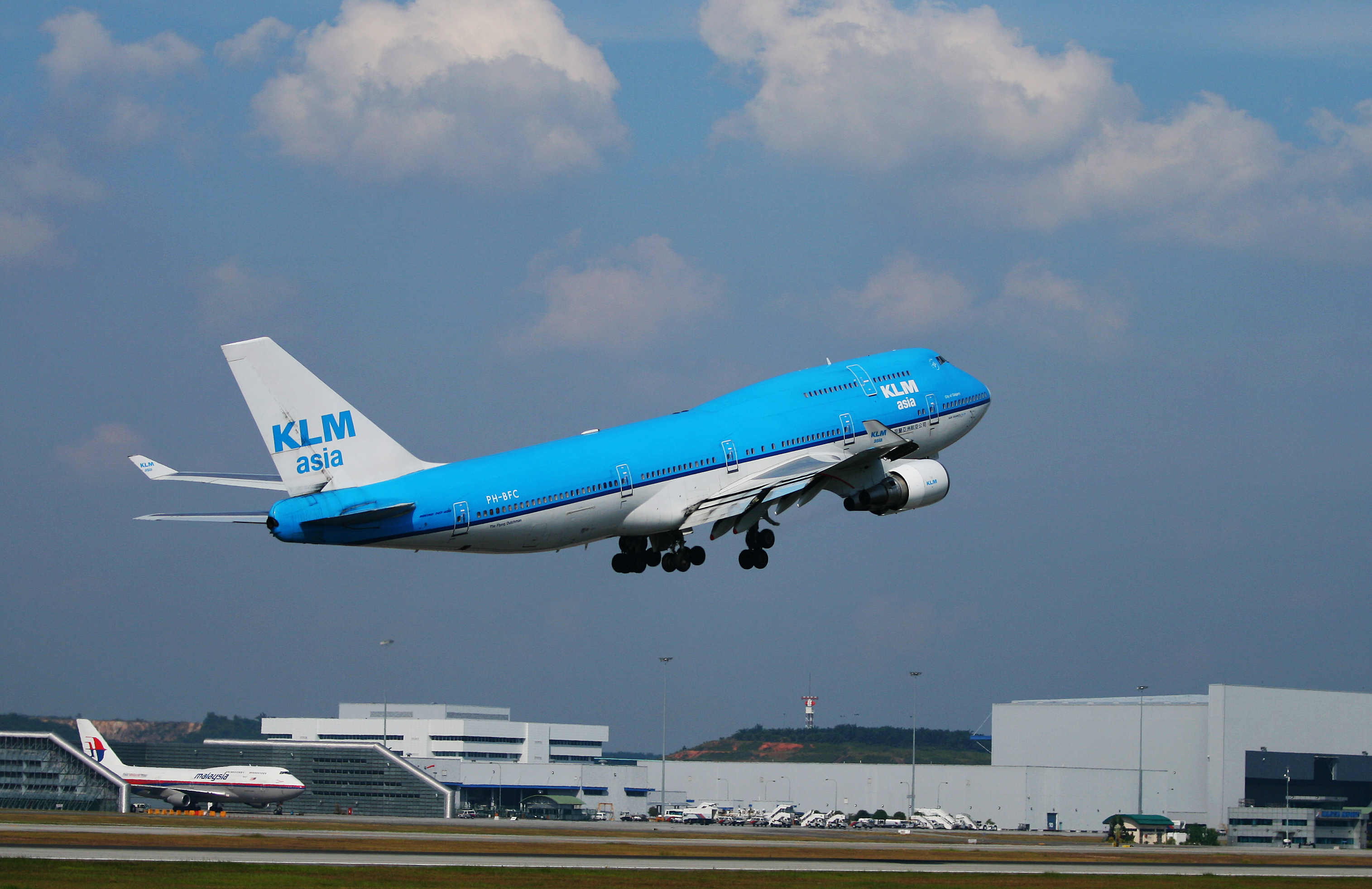 KLM Asia Boeing 747-400 Combi departing Kuala Lumpur International Airport, Malaysia